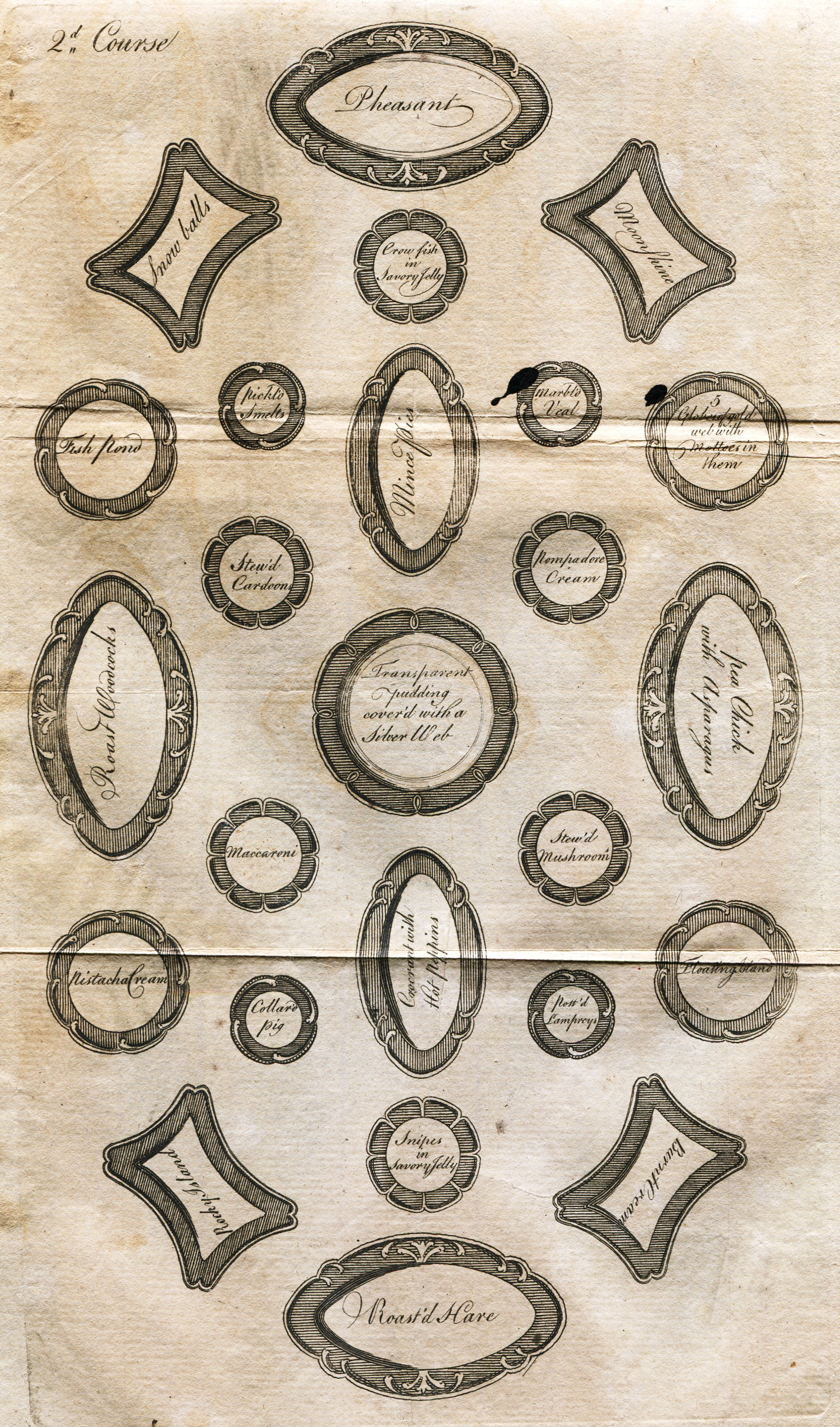 Foldout engraving of table layout for an elegant second course, from Elizabeth Raffald's The Experienced English Housekeeper, 4th Edition, 1775.